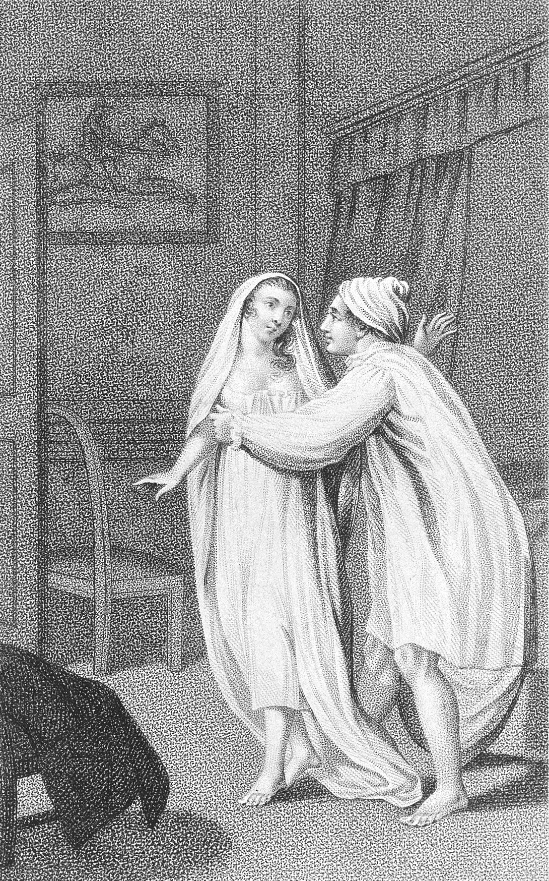 Nightgowns. Rare Books Keywords: nightgowns; Sociology; Hunter, John